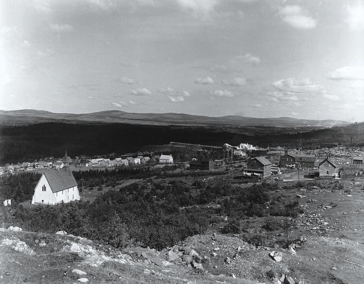 Photograph, Black Lake, QC, 1909, Wm. Notman & Son, Silver salts on glass - Gelatin dry plate process - 20 x 25 cm